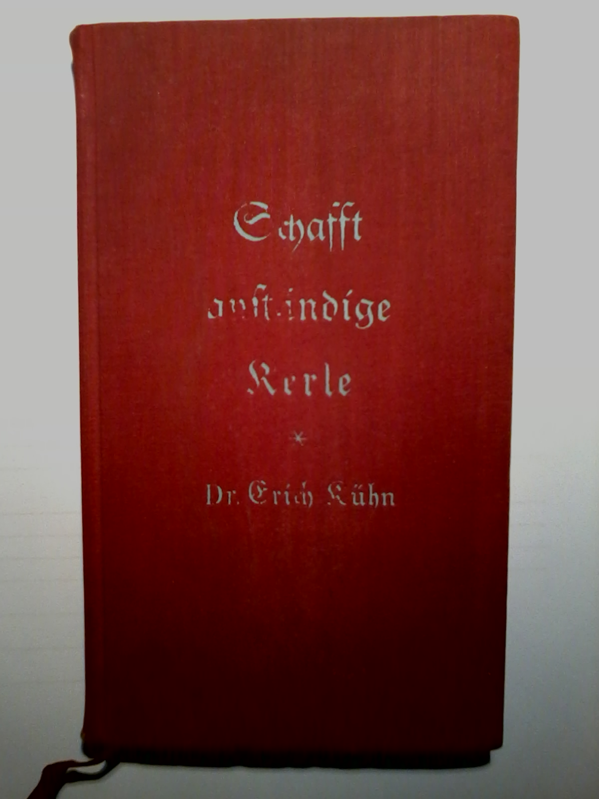 Schafft anständige Kerle, book by Erich Kühn, published during the Third Reich. Berlin-Leipzig 1938, Theodor Weicher Verlag.